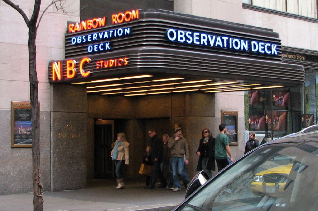 The NBC Studios entrance to the GE Building in New York City.